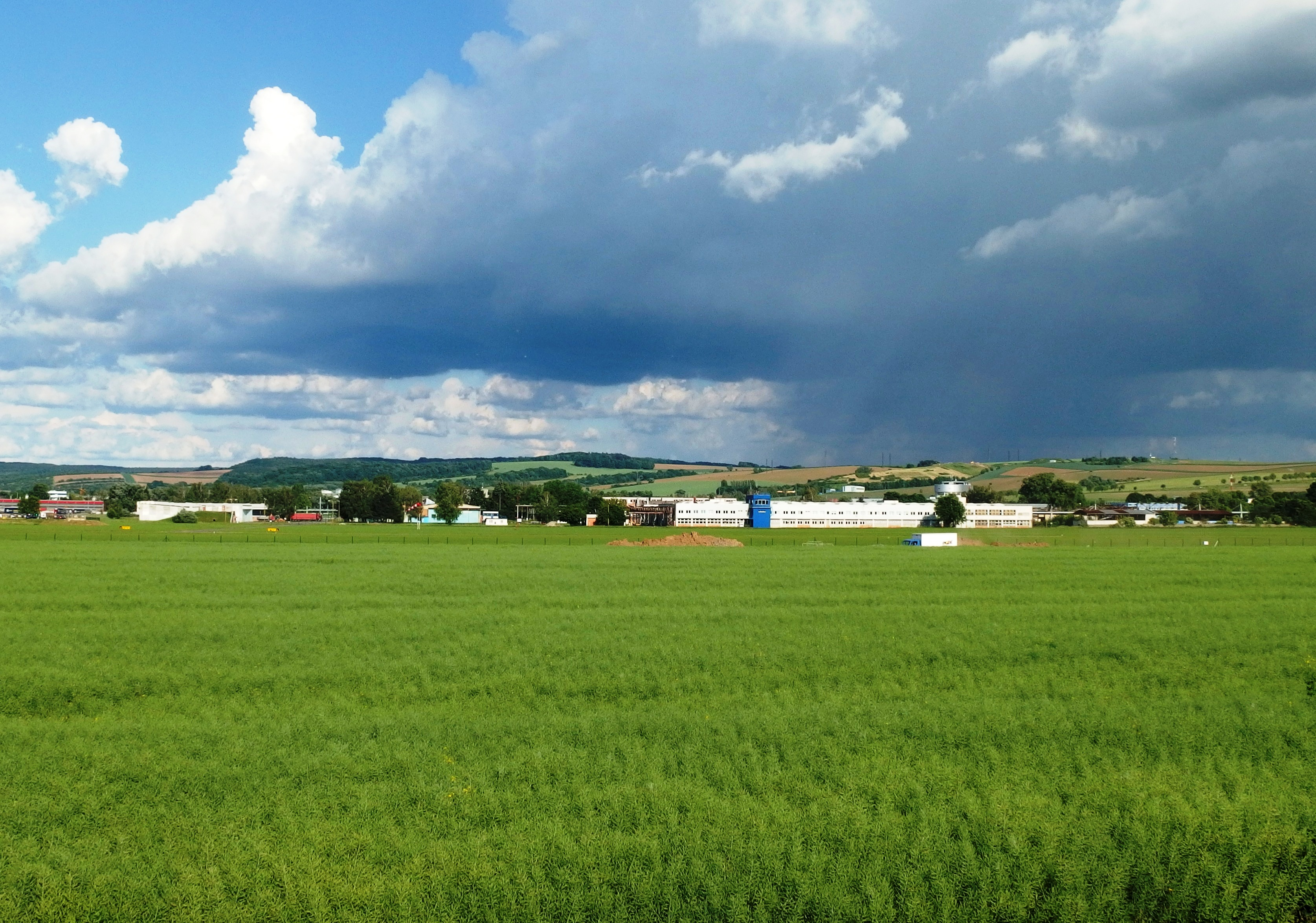 Otrokovice, Zlín District, Czech Republic.